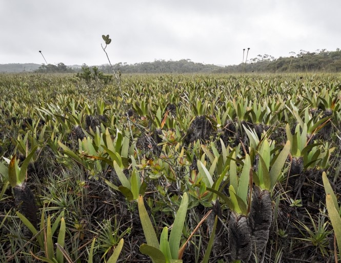 Peat wetland dominated by Stegolepis ptaritepuiensis plants on the summit plateau of Waukauyengtipu, photographed by M. Wrazidlo in January 2018